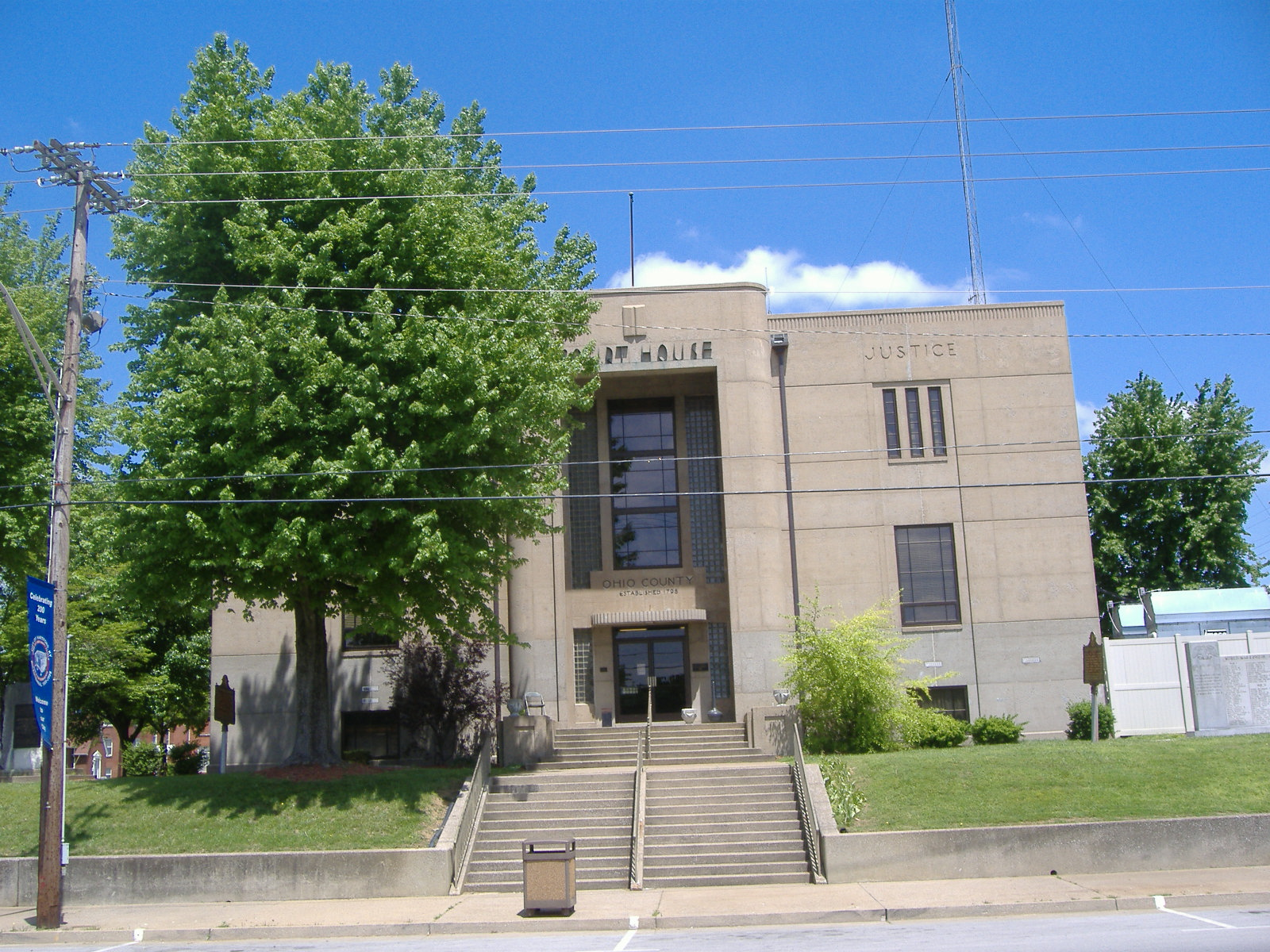 Front of the Ohio County Courthouse, located along U.S. Route 231 and Kentucky Route 69 on Courthouse Square in Hartford, Kentucky, United States. Built in 1943, it is part of the Downtown Hartford Historic District, a historic district that is listed on the National Register of Historic Places.